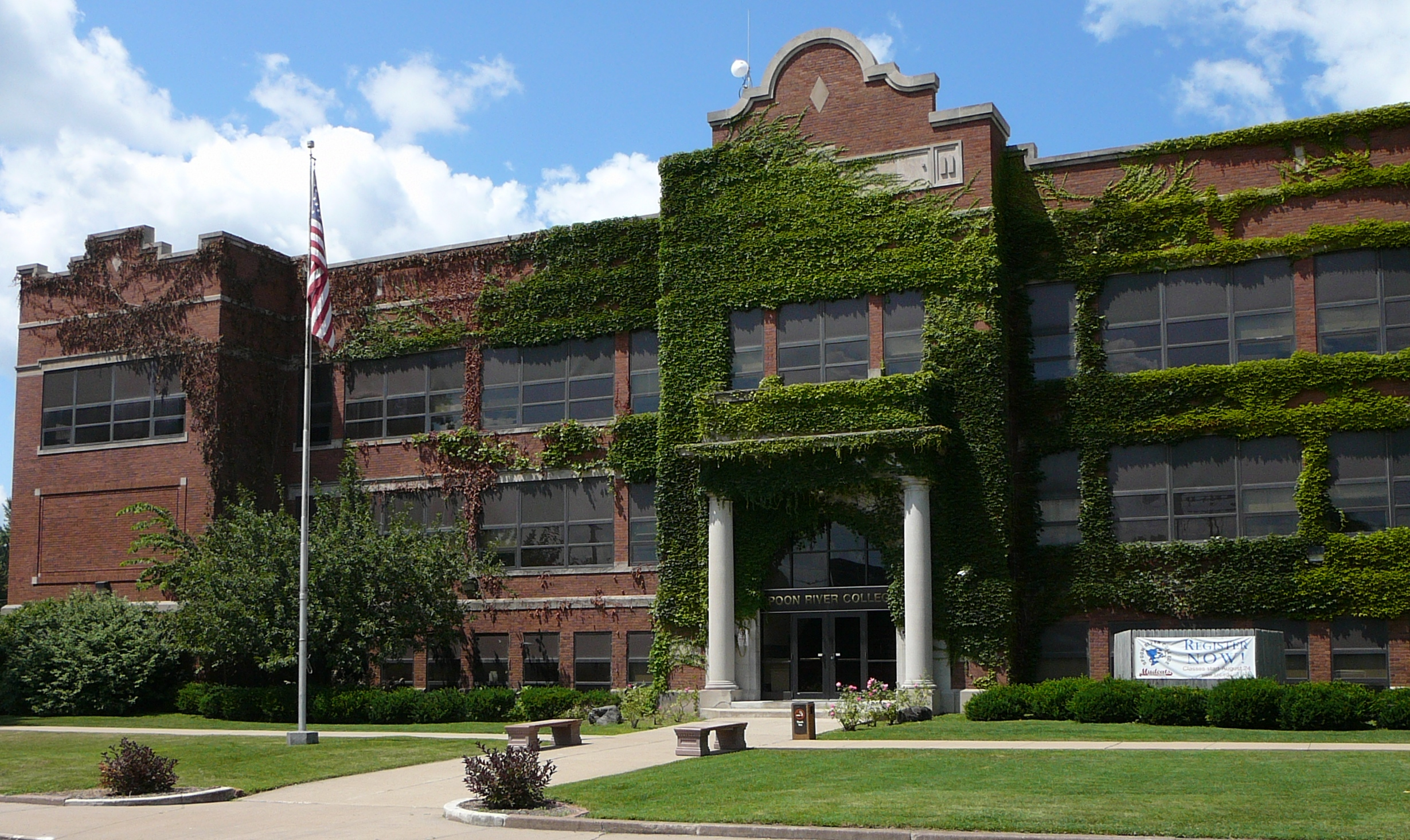 Picture of Spoon River College, Macomb Campus Front, east facing entrance taken from opposite side of South Johnson street